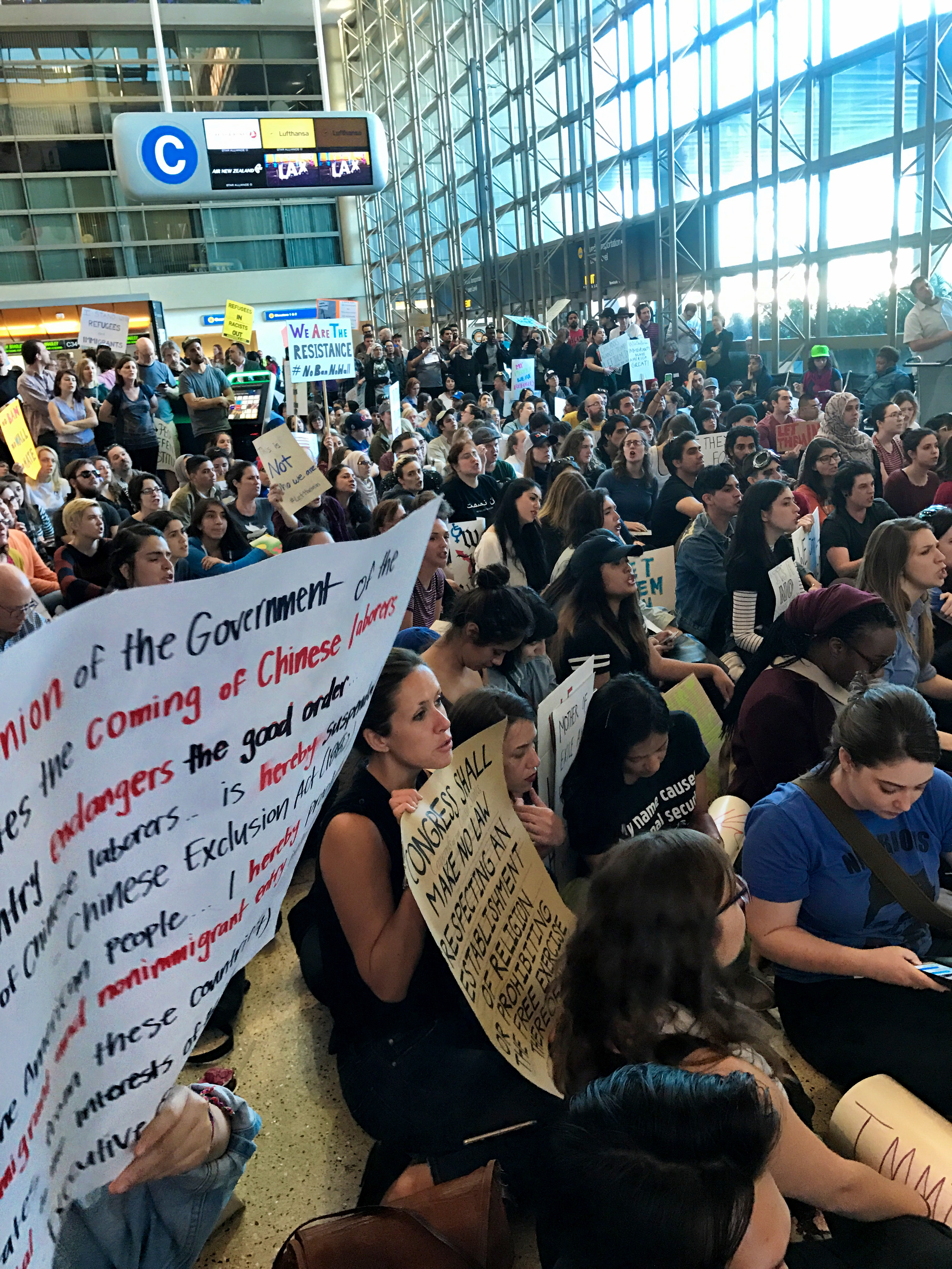 (1/28/17) Sit Down at Los Angeles International Airport (LAX) to Protest Trump's Travel Ban